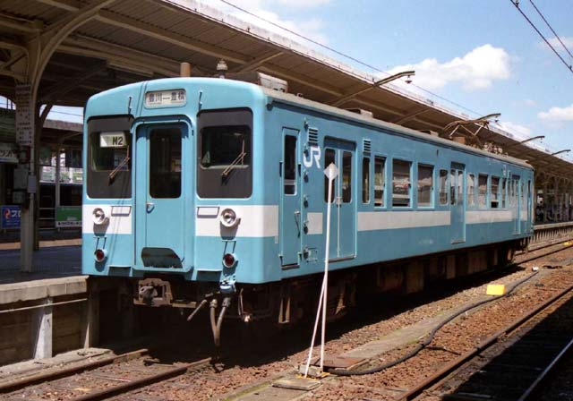 JR Central 119-100 series EMU car M2